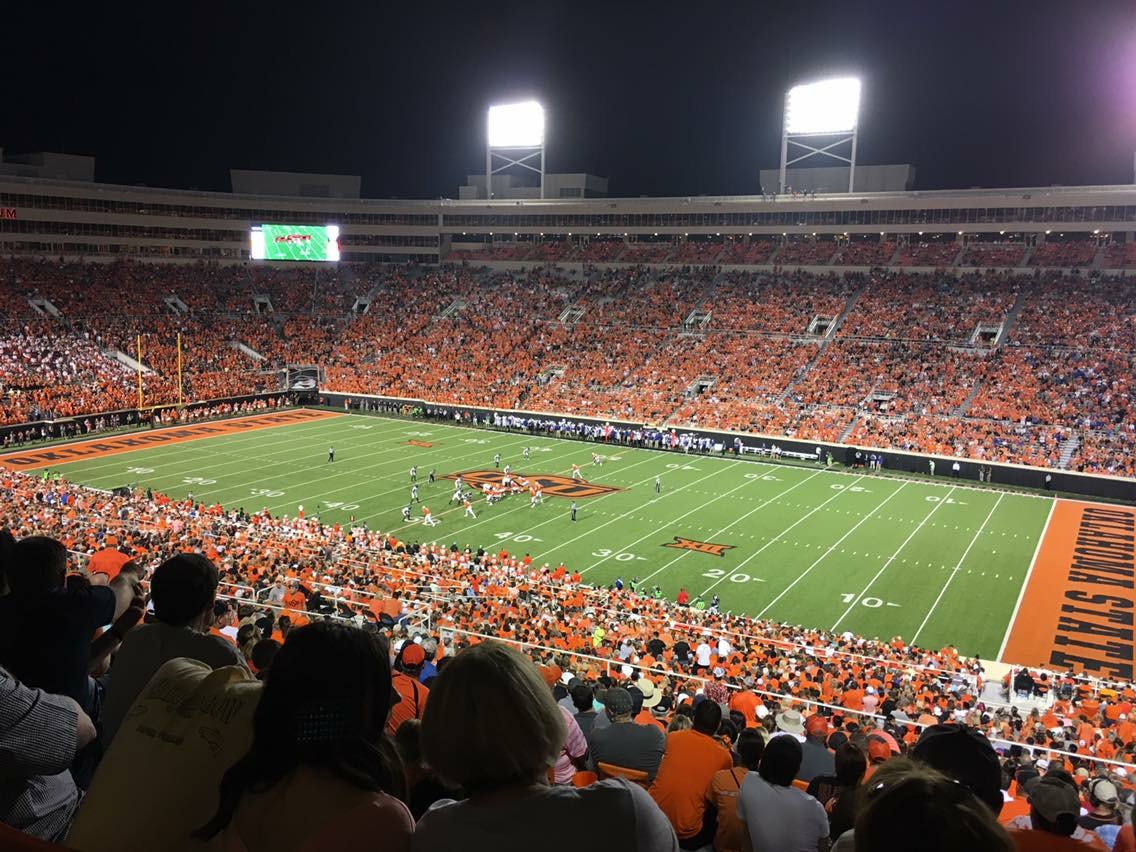 Interior of :en:Boone Pickens Stadium in the 2017 season opener against the Tulsa Golden Hurricane.